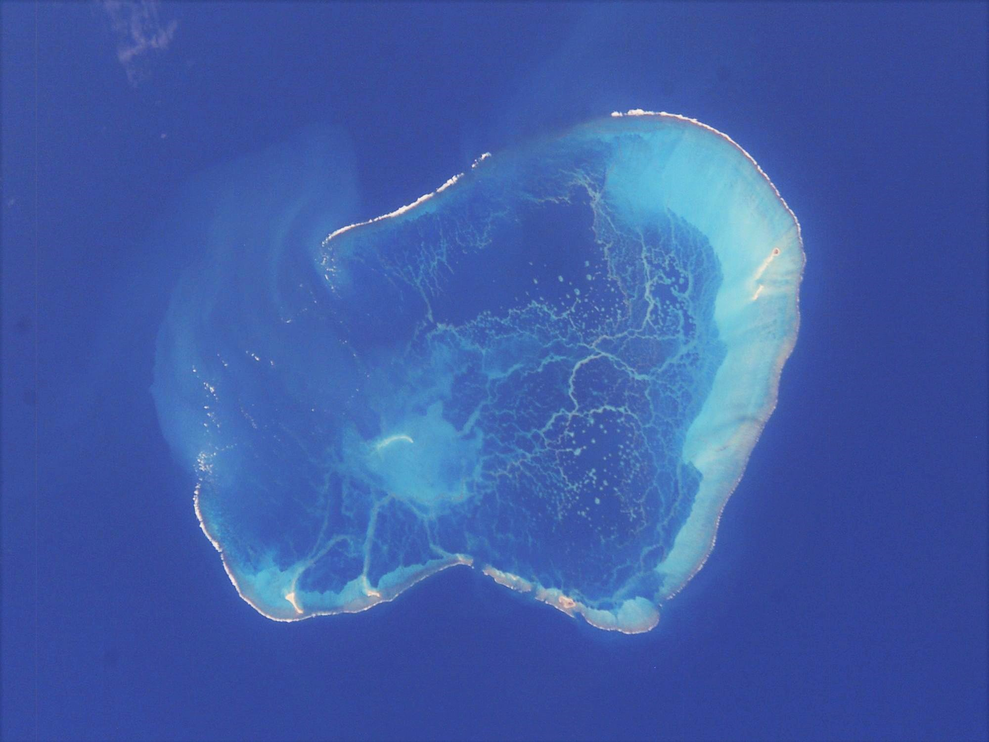 NASA astronaut image of Pear and Hermes Atoll, Northwestern Hawaiian Islands